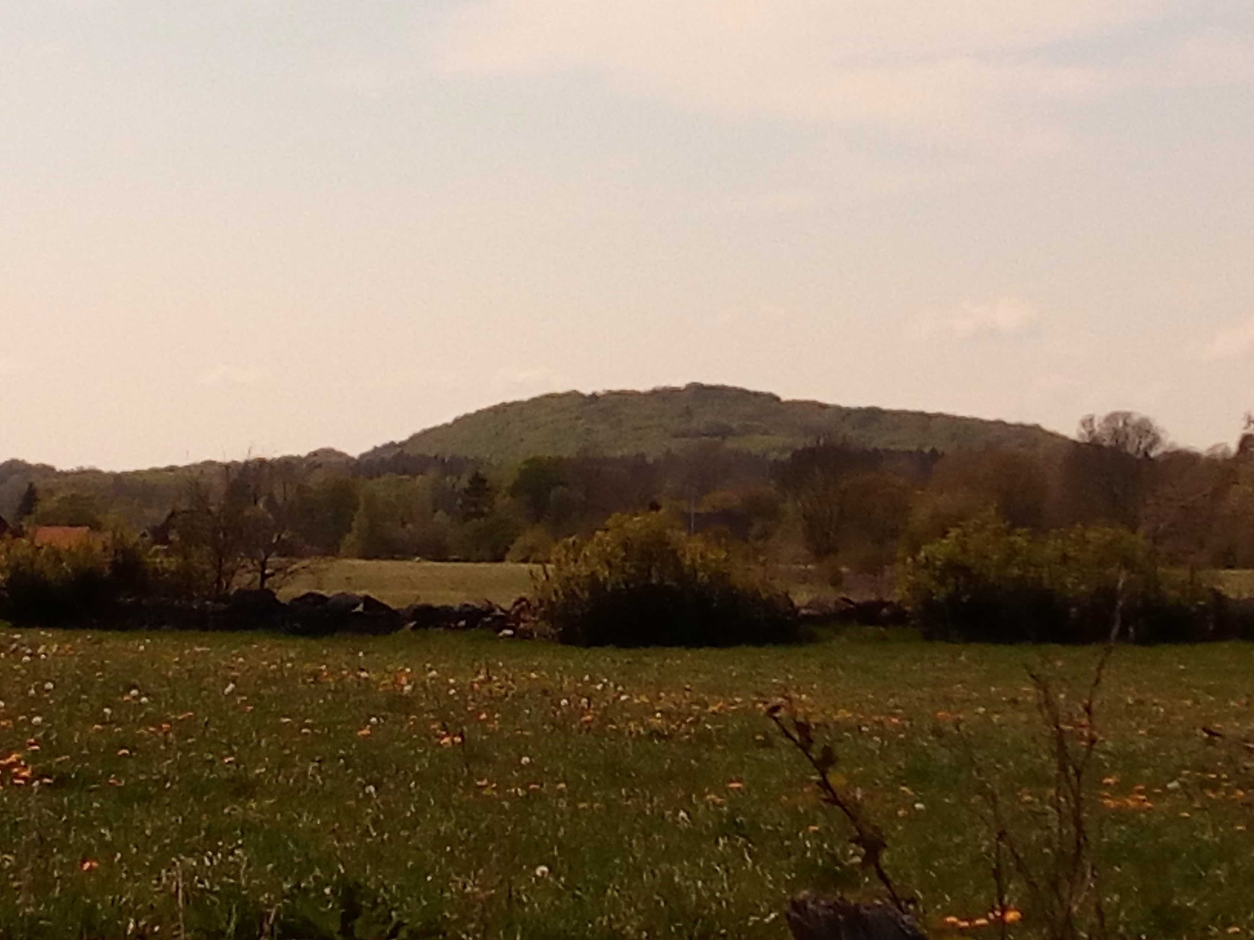 Gällabjär - a volcano in southern Sweden, active 100 million years ago.